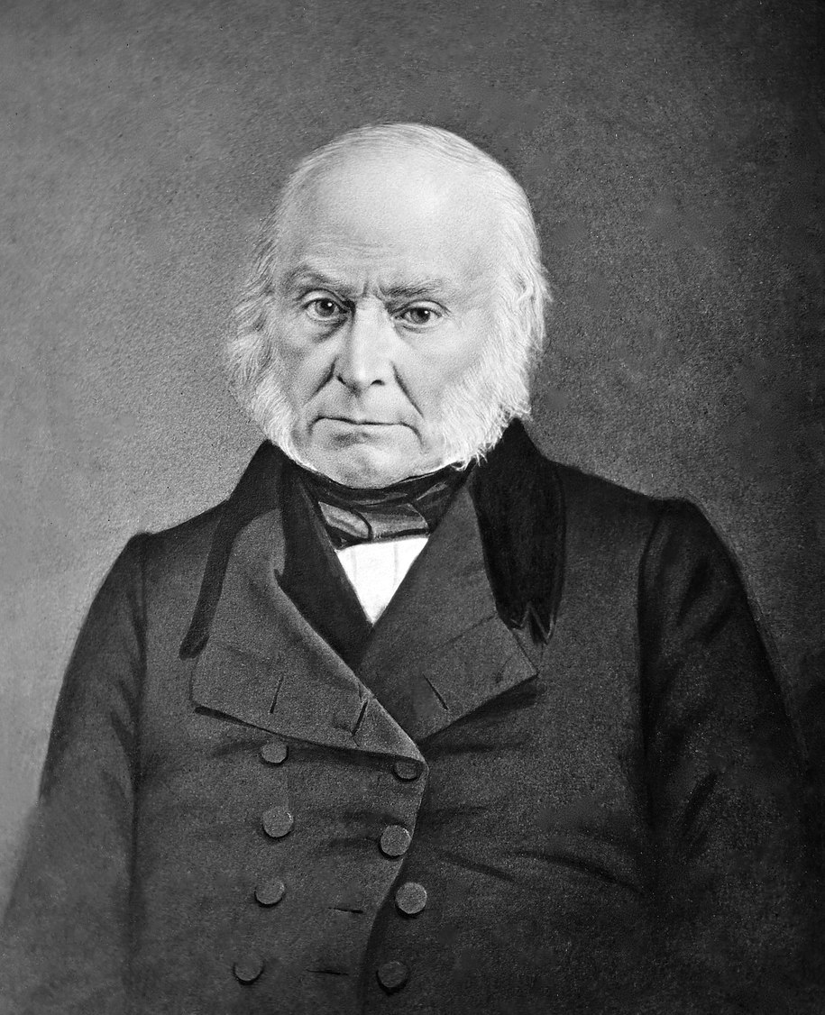 Portrait of 6th President of the United States, John Quincy Adams. Cropped and reuploaded to Wikimedia Commons by Emiya1980